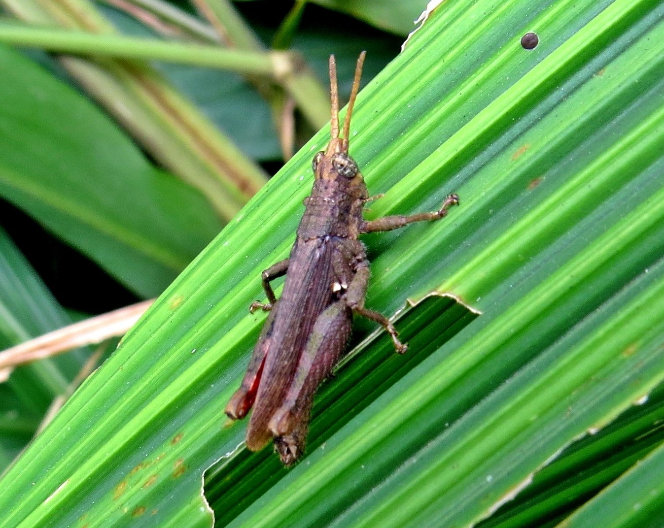 Vilerna rugulosa. Species of insect.